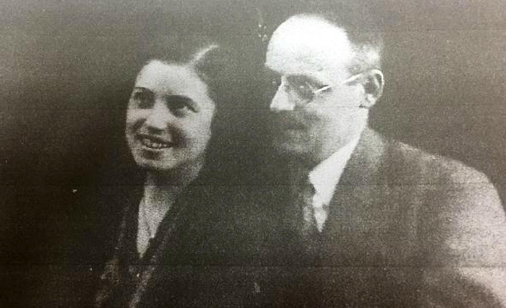 Max Mordechai and Rachel Lewenstein.